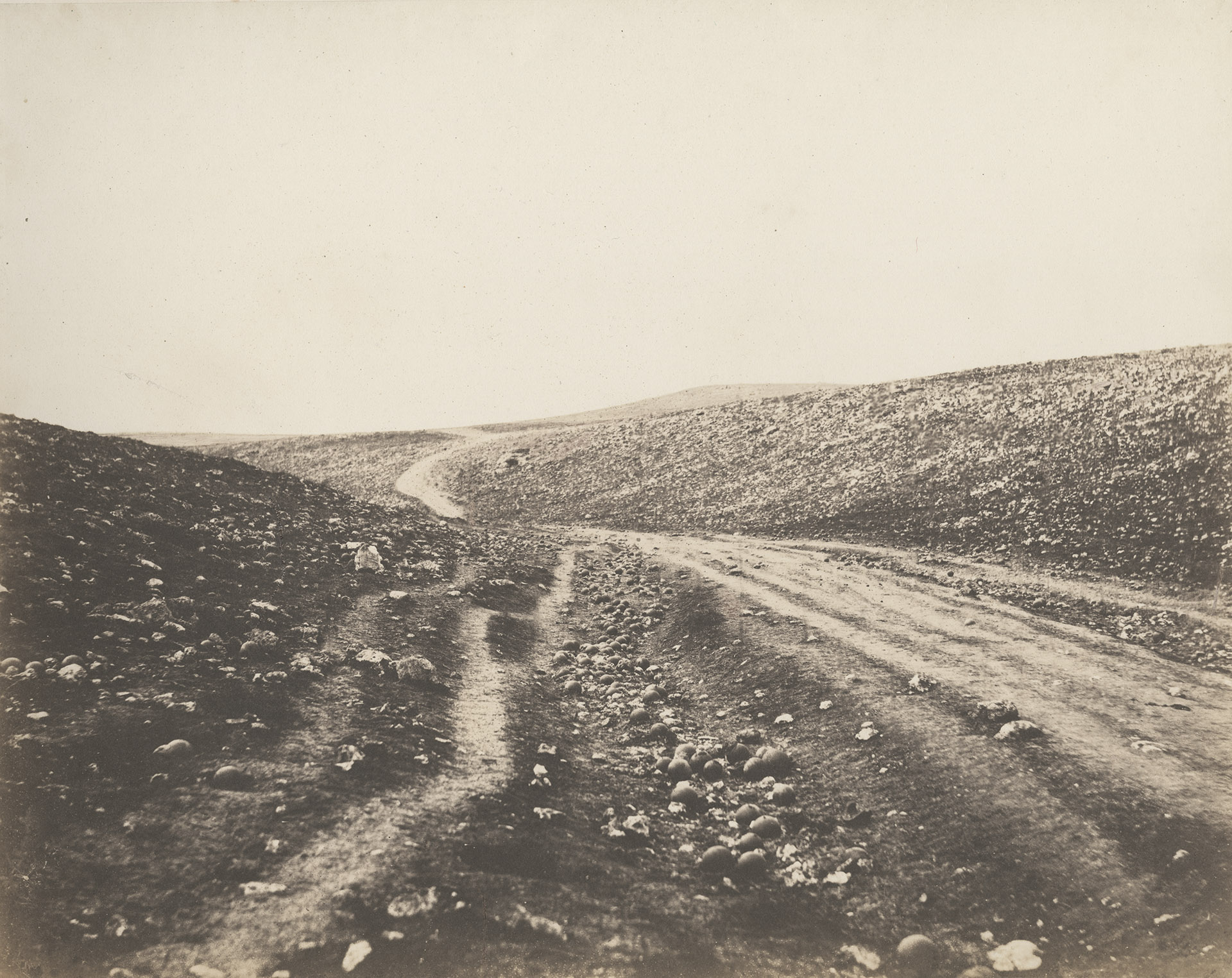 "The valley of the shadow of death" Crimean War photograph. Dirt road in ravine scattered with cannonballs.